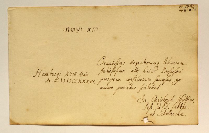 Inscriptipon of Johann Christoph Wolf in Album amicorum of Johann Friedrich Behrendt, 1736 May 18